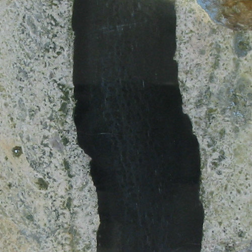 Photographer: Siim Sepp Date of the creation: 25th April, 2005. Diameter is 8 cm. Description: black is basalt, white is albitite and green is epidote. Rock sample is from La Palma, Canary islands and belongs to the University of Tartu.